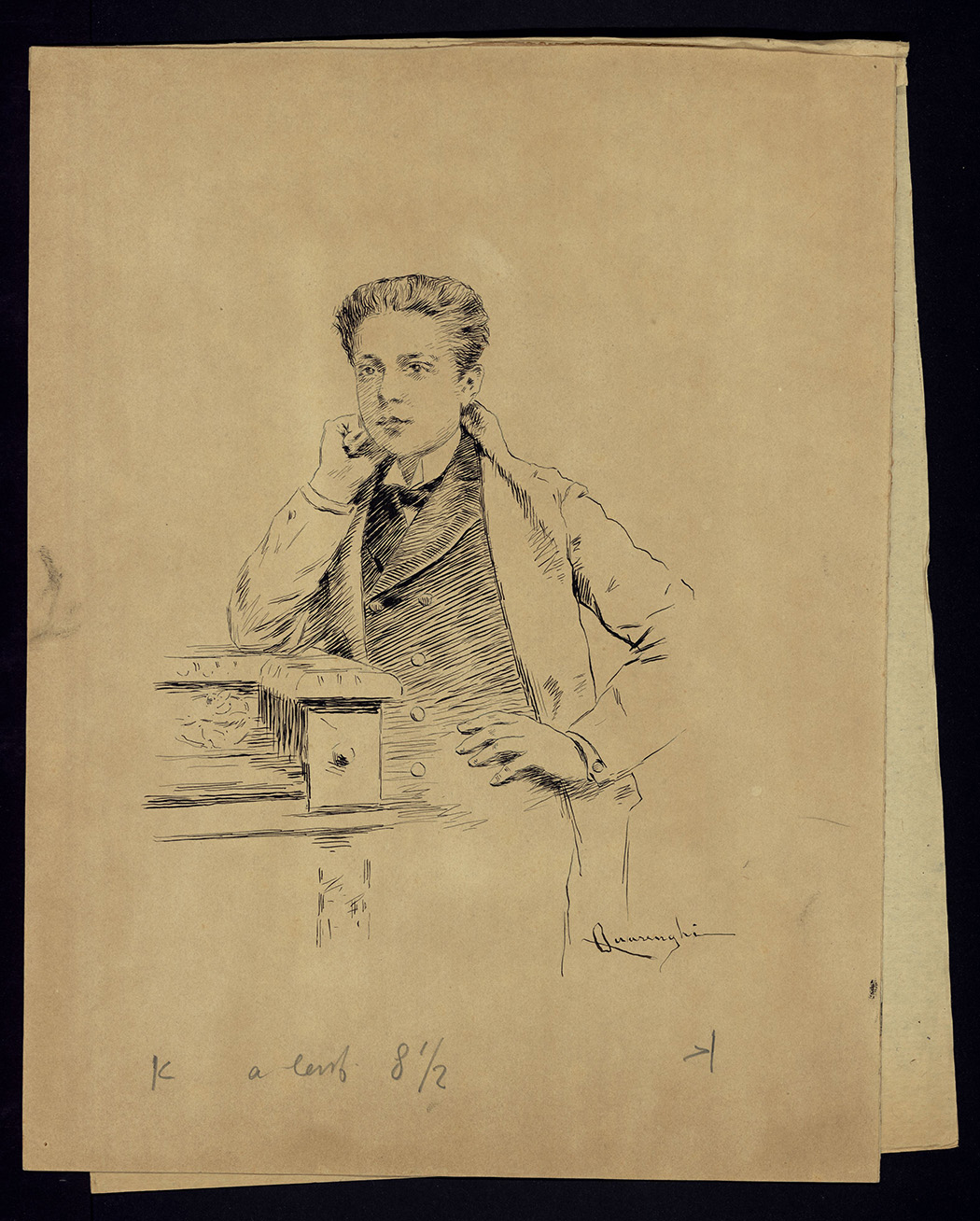 Portrait of Fazio.